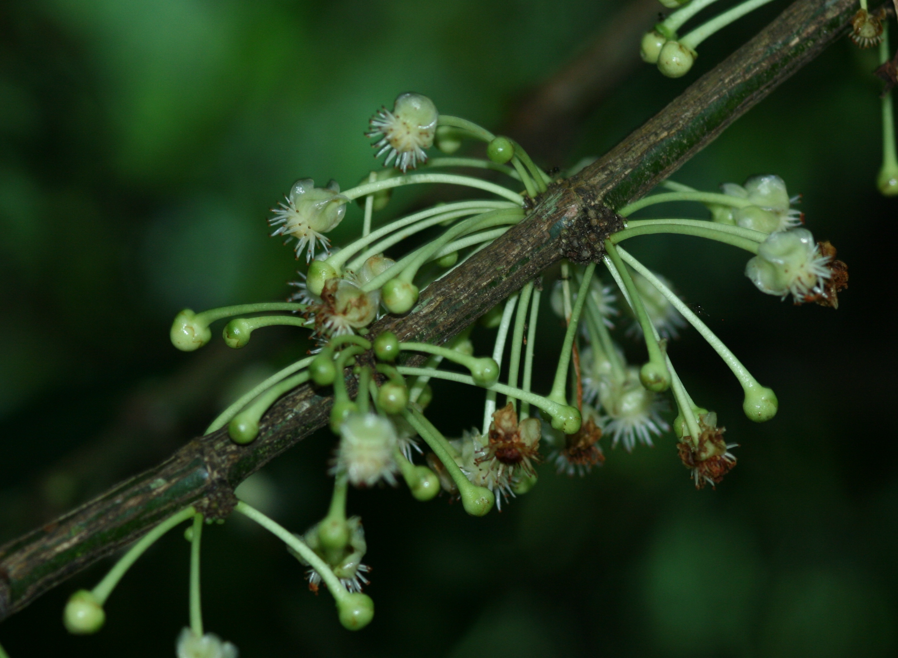 Flowering branch of Garcinia macrophylla near Cacuri on upper Rio Ventuari, Venezuela